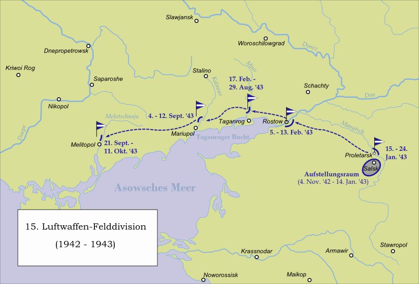 Map showing the way of the 15th Luftwaffe Field Division in Russia 1942/43.(Based on: Peter Schmitz u.a: Die deutschen Divisionen 1941–1945, Osnabrück 1996, p.440)